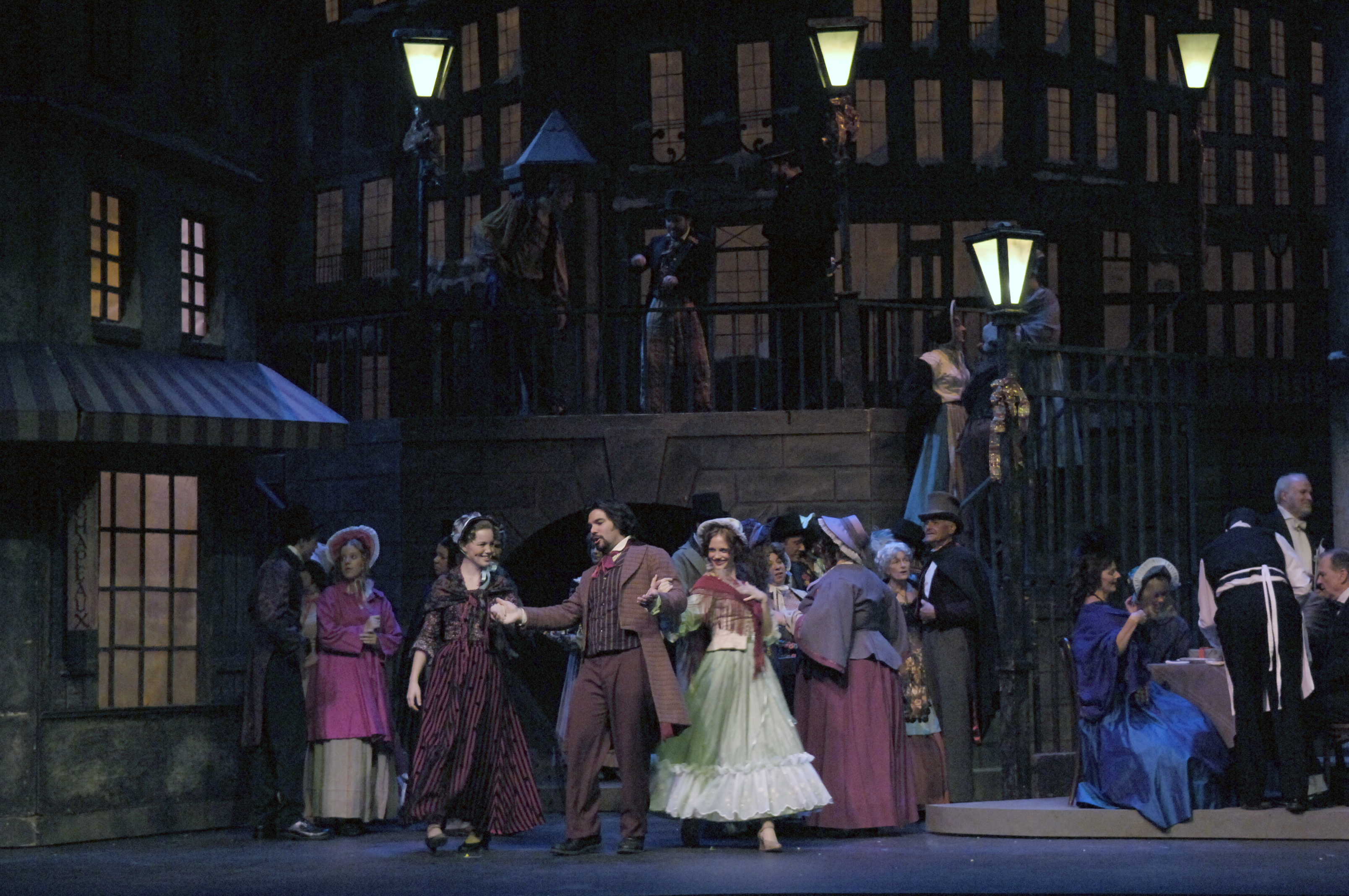 DOT Porduction still La Boheme